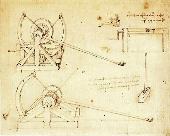 Catapult from Leonardi da Vinci's "Codex Atlanticus"